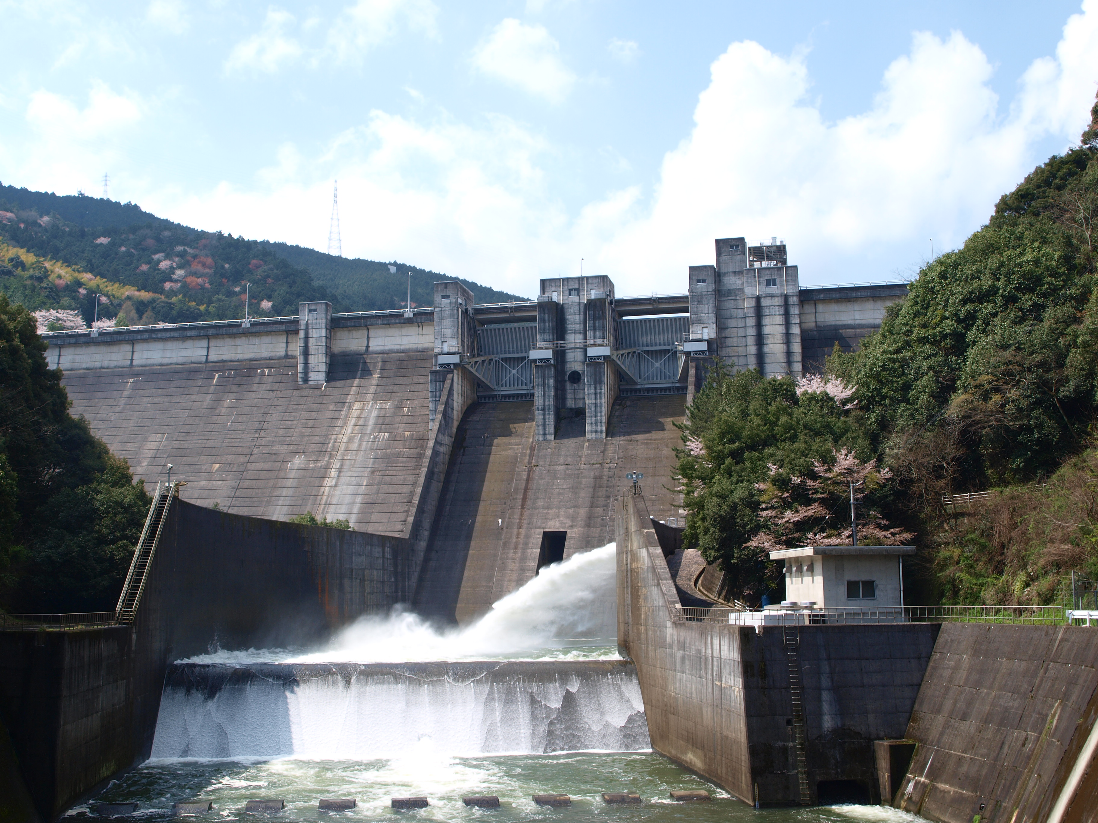 Nomura dam